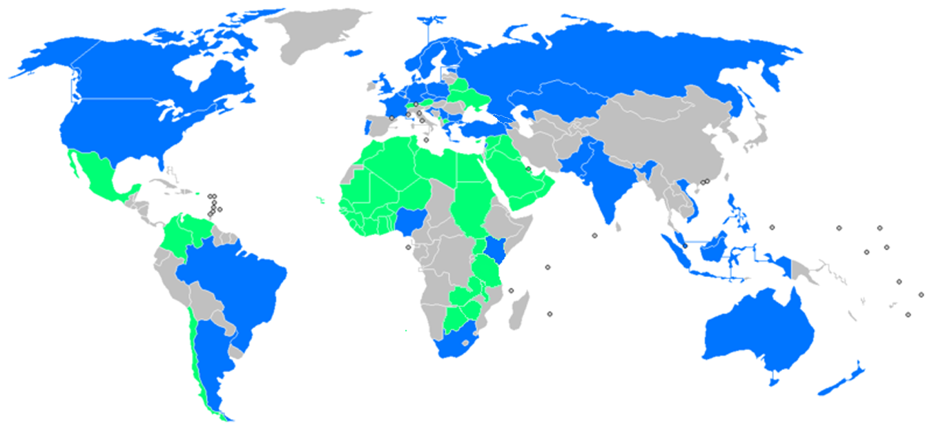 Countries that have their own versions of an Idol series. Countries that film their own versions are in blue, while those that take part in a series with other countries are in green.